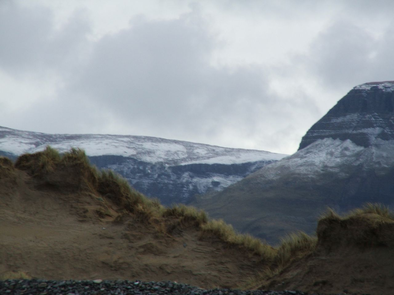 (Ben Bulben) Taken from Streedagh Beach, Grange, Co. Sligo, Rep of IrelandSnow on Ben Bulben